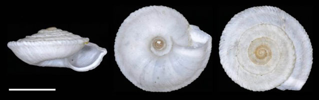 Composition of the 3 main views of the shell of Xerogyra grovesiana. Locality: Castrovalva, Gole de Sagittario. L'Aquila (Italy)